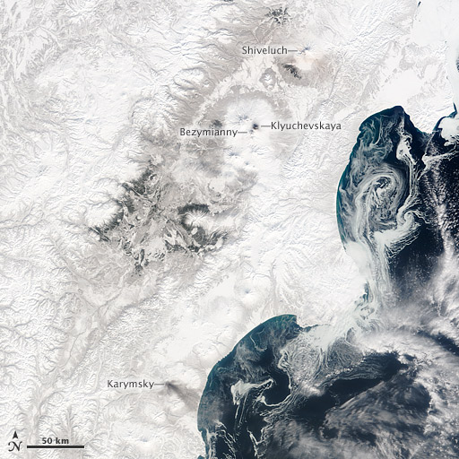 The Kamchatka Peninsula is one of the most volcanically active regions on Earth. Located in Russia’s Far East region, the peninsula forms the northwestern edge of the Pacific Ring of Fire. At least 114 Kamchatkan volcanoes have erupted in the past 12,000 years. According to the Kamchatka Volcanic Eruption Response Team (KVERT) 4 of these volcanoes—Shiveluch, Klyuchevskaya, Bezymianny, and Karymsky—are erupting currently. This natural-color satellite image shows the 4 active volcanoes on April 2, 2010. Gray and brown ash covers the white snow near Shiveluch, Klyuchevskaya, and Karymsky. The Moderate Resolution Imaging Spectroradiometer (MODIS) aboard NASA’s Terra satellite acquired the image.